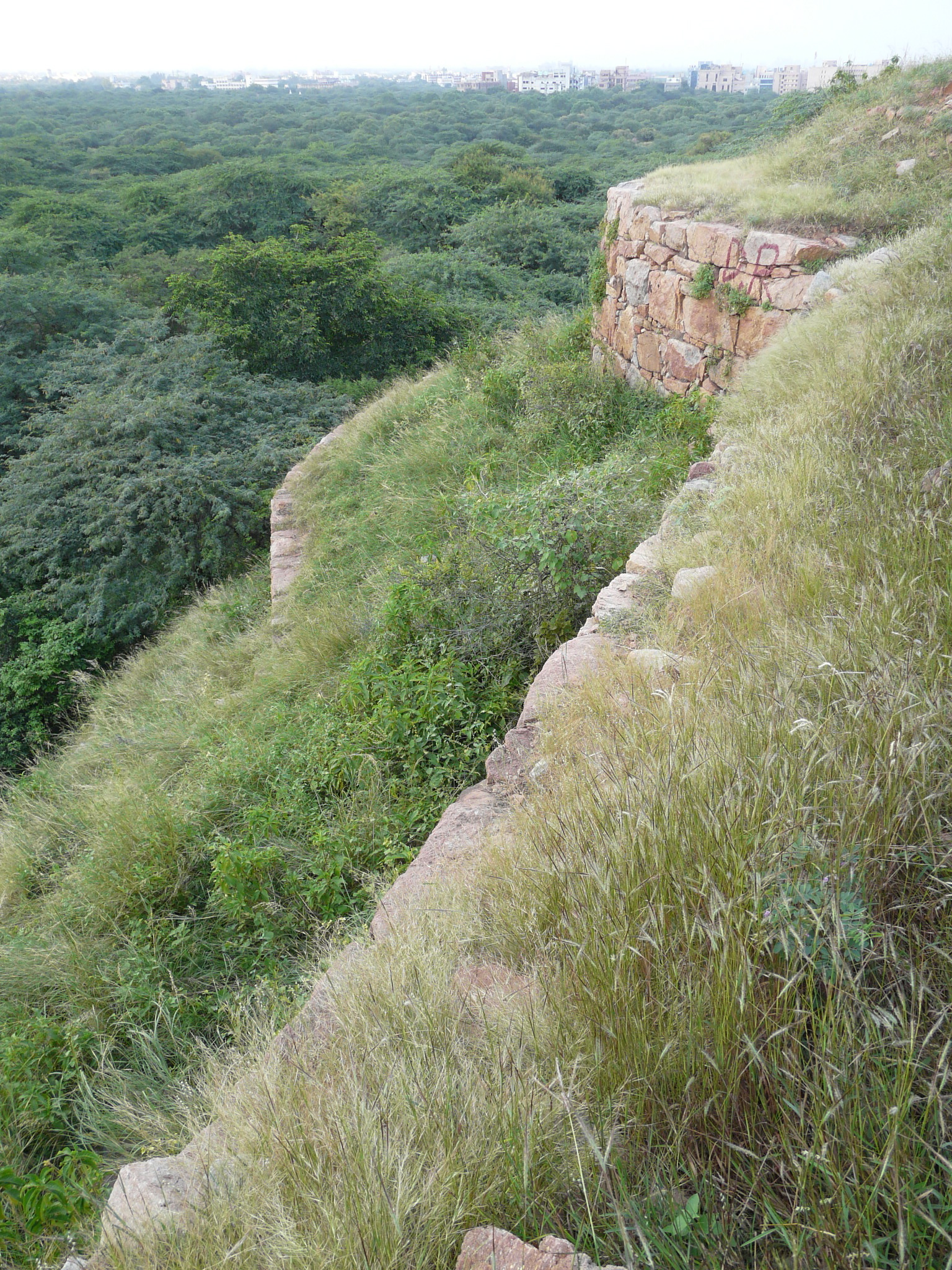 The high fortifications on the north-west of Lal Kot Fort.